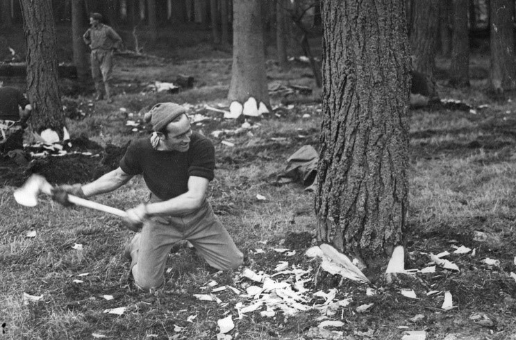 2-2 forestry - kneeling